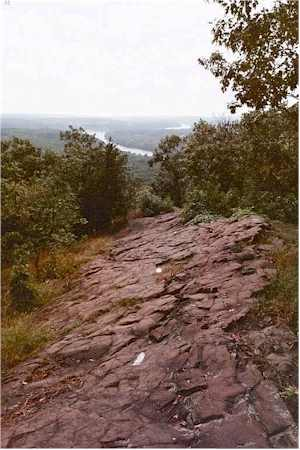 View south from Mout Holyoke ledges, Massachusetts. Connecticut River below. Paul Gagnon, 2000.